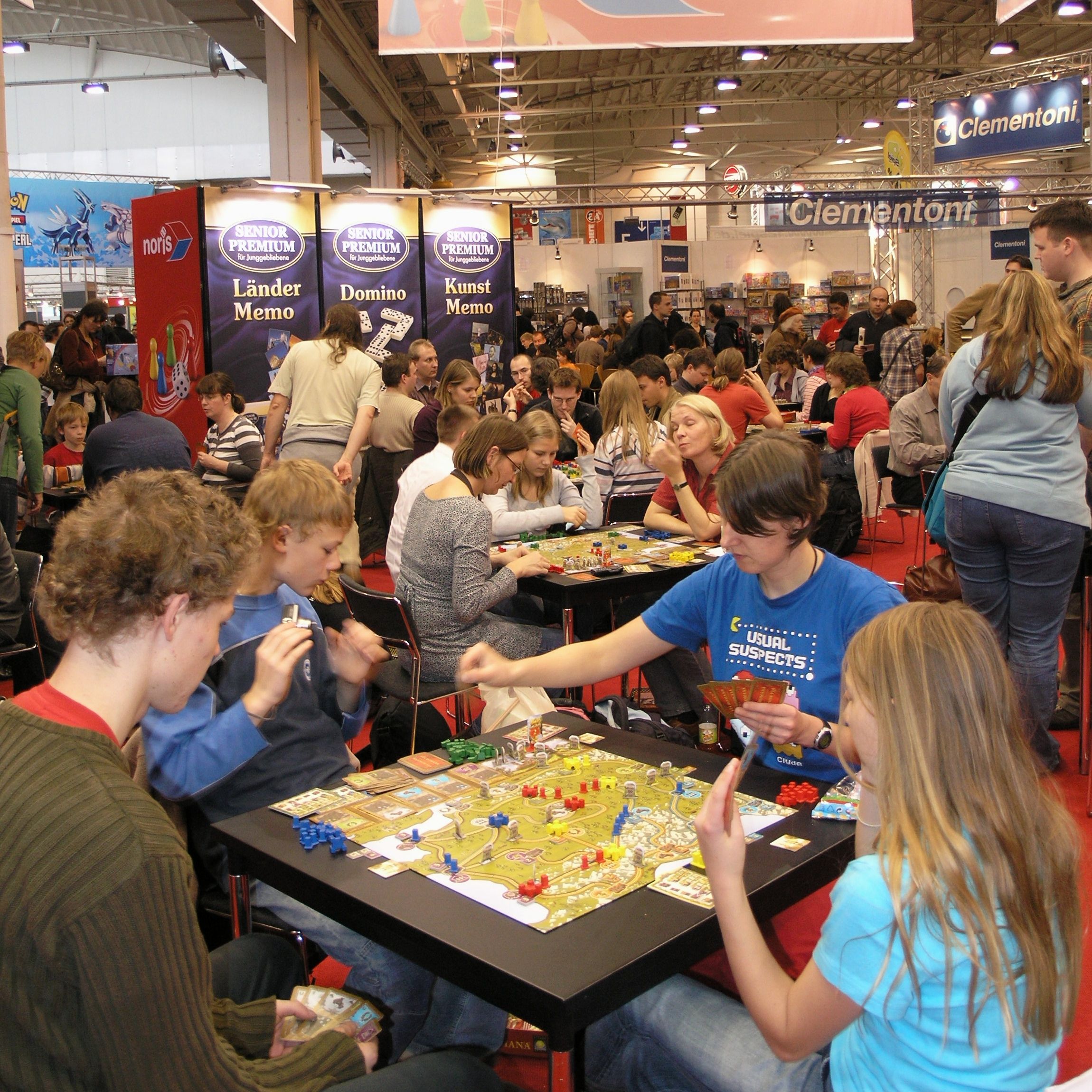 Personality rights warningAlthough this work is freely licensed or in the public domain, the person(s) shown may have rights that legally restrict certain re-uses unless those depicted consent to such uses. In these cases, a model release or other evidence of consent could protect you from infringement claims.